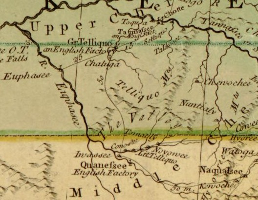 The Unicoi Mountain area as presented on John Mitchell's "Map of the British and French Dominions in North America," published in 1755. Mitchell calls the Unicoi Mountains the "Telliquo Mountains." The Overhill Cherokee towns are shown in the top left, the Middle towns on the right, and the Valley towns at the bottom. The "Euphasee River" is now the Hiwassee River, and the "Tannassee River" is now the Little Tennessee River. The map is currently on file in the Map Collections of the U.S. Library of Congress.